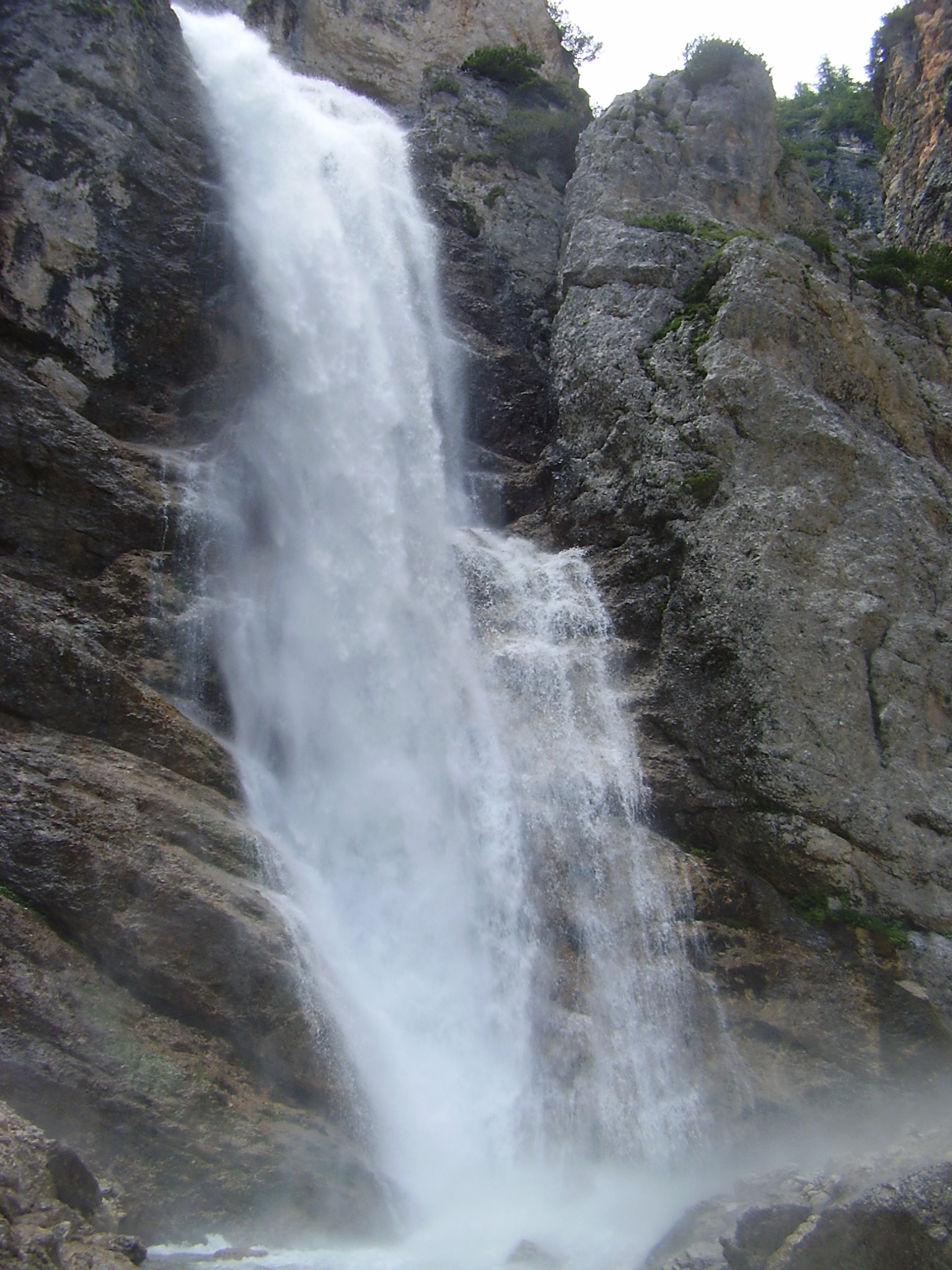 The Fanes falls in the Dolomites, Cortina d'Ampezzo, Italy.